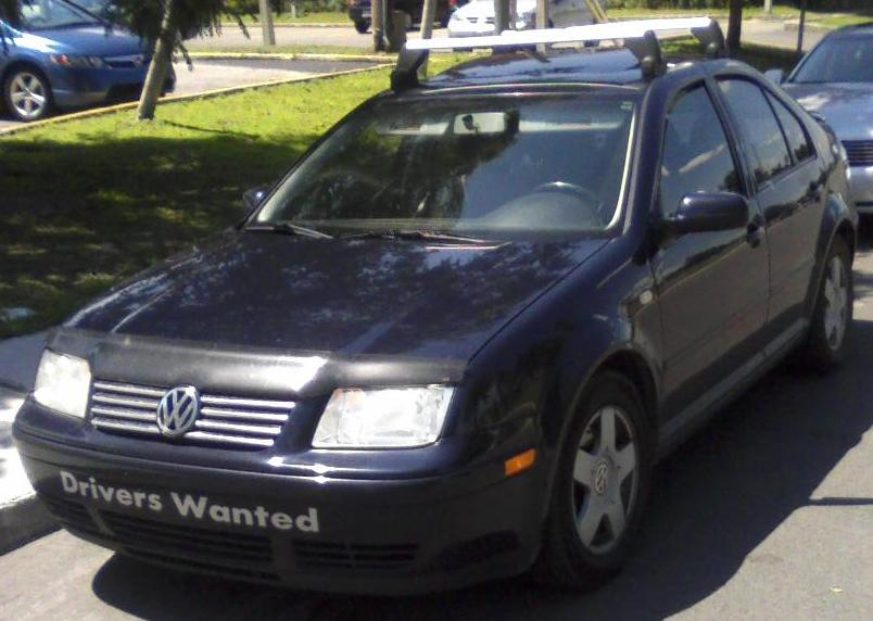 2002-2005 Volkswagen Jetta photographed in Montreal, Quebec, Canada.